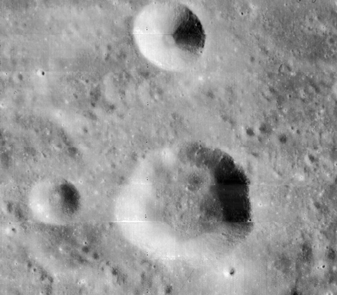 Image of lunar crater Fox with surroundings, taken by Lunar Orbiter 1. The preview image 1021_med.jpg was reduced in size to 50% of normal, then cropped to focus on the crater.